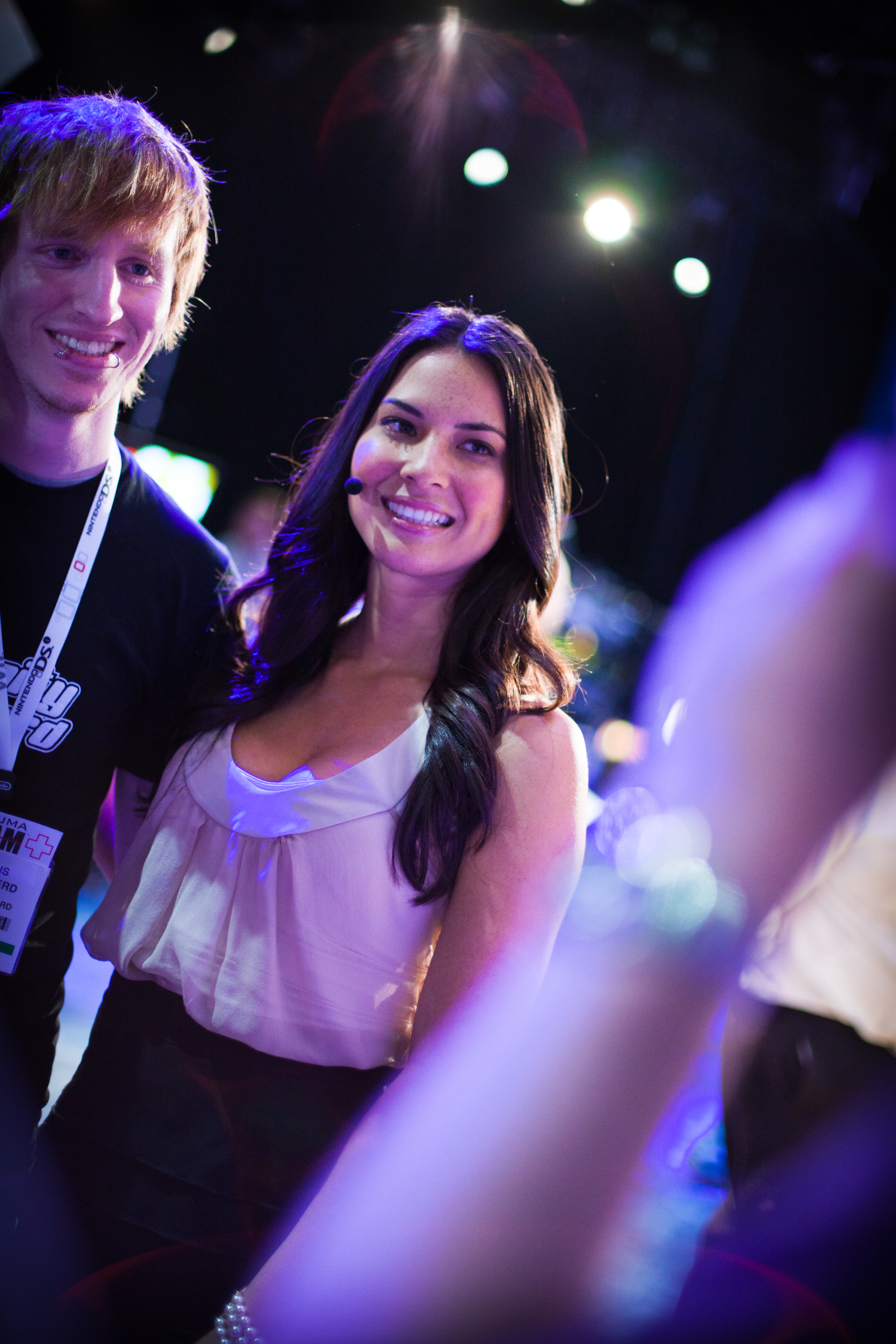 hahha, old pics from E3 2009 (the Electronic Games Expo)... er, just had to edit them and slap them up here. ; )